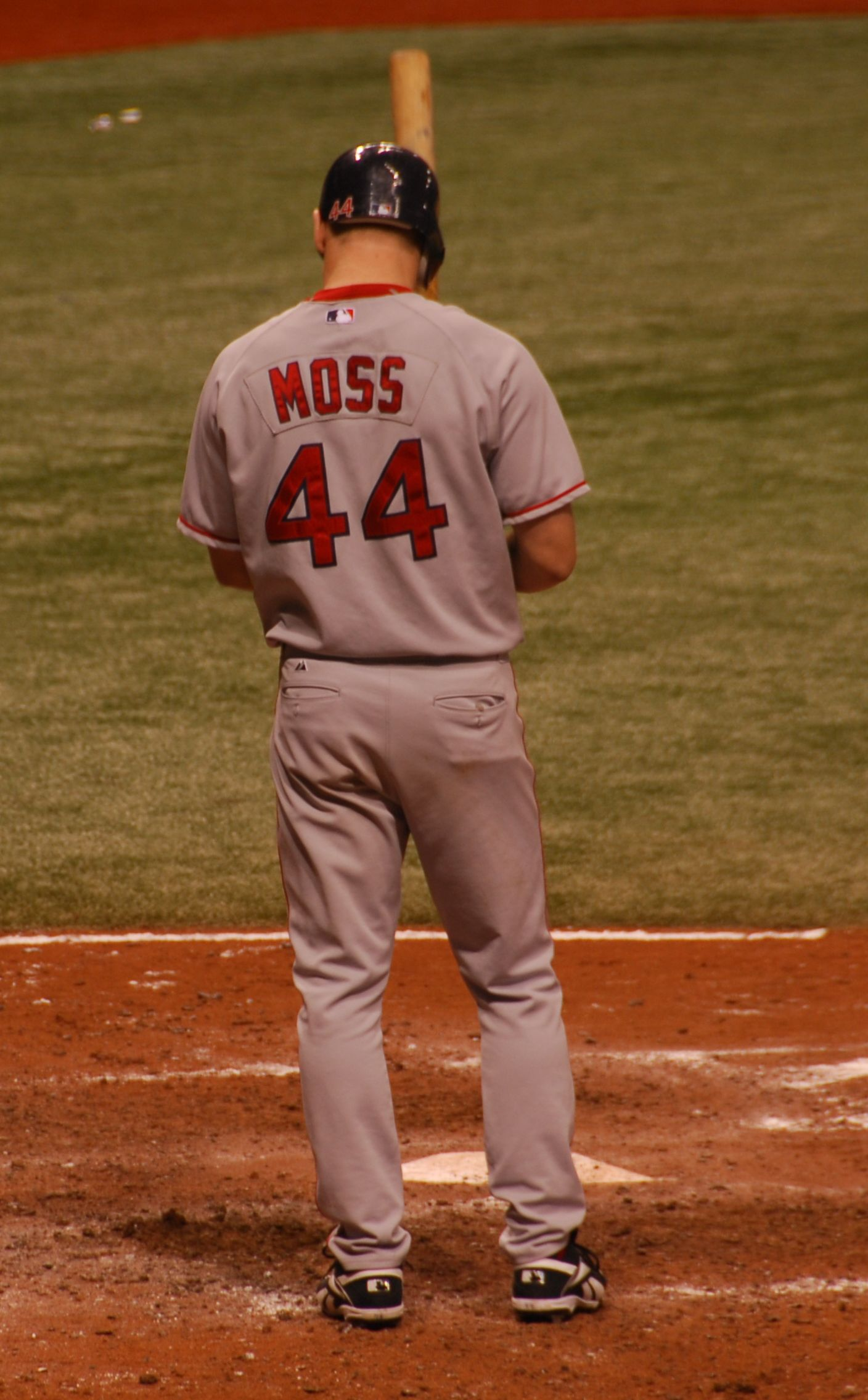 Brandon Moss batting